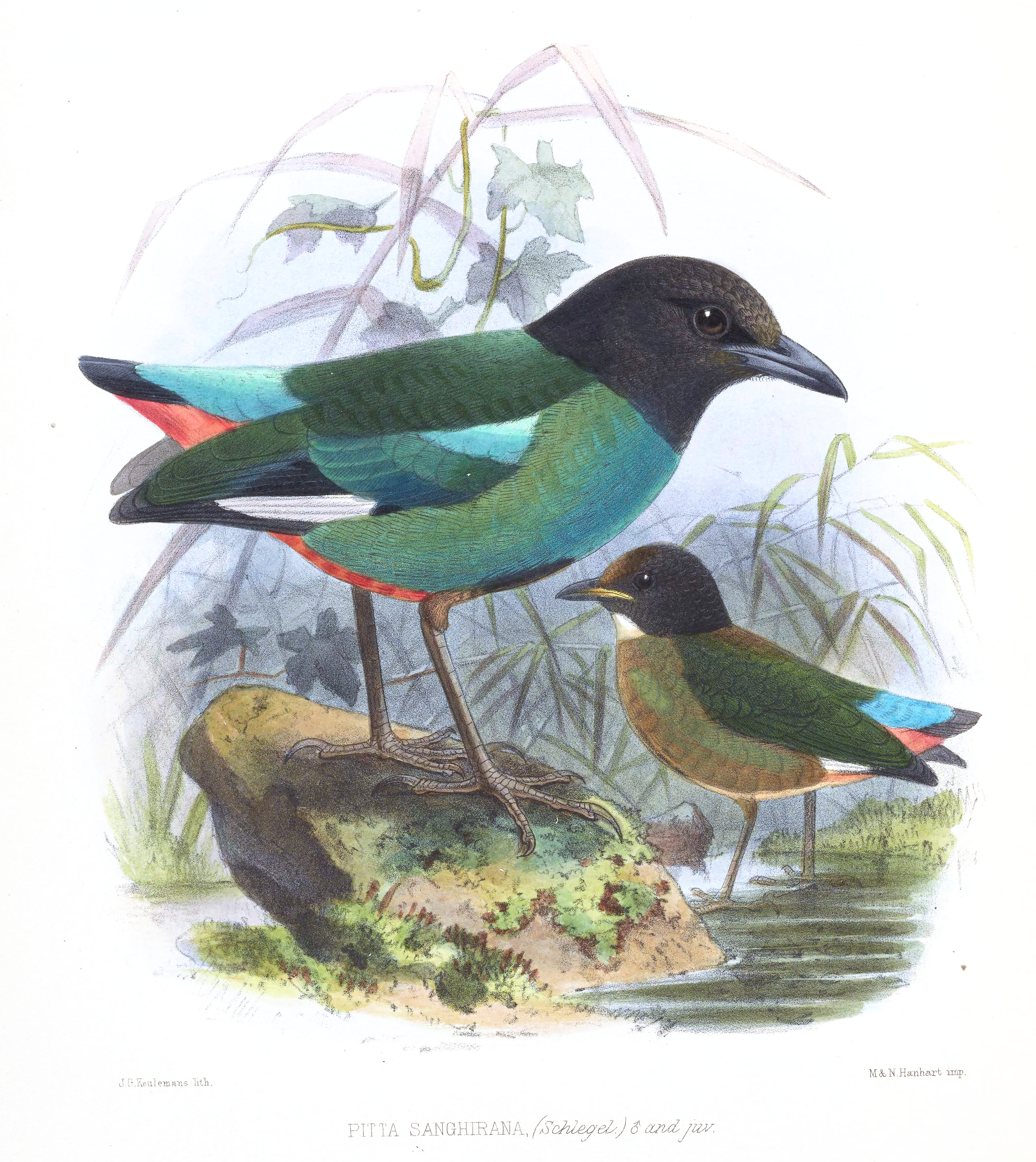 Male and juvenile Hooded pittas, of the subspecies sanghirana, which is native to Sangihe Island, north of the Minhassa peninsula of northern Sulawesi